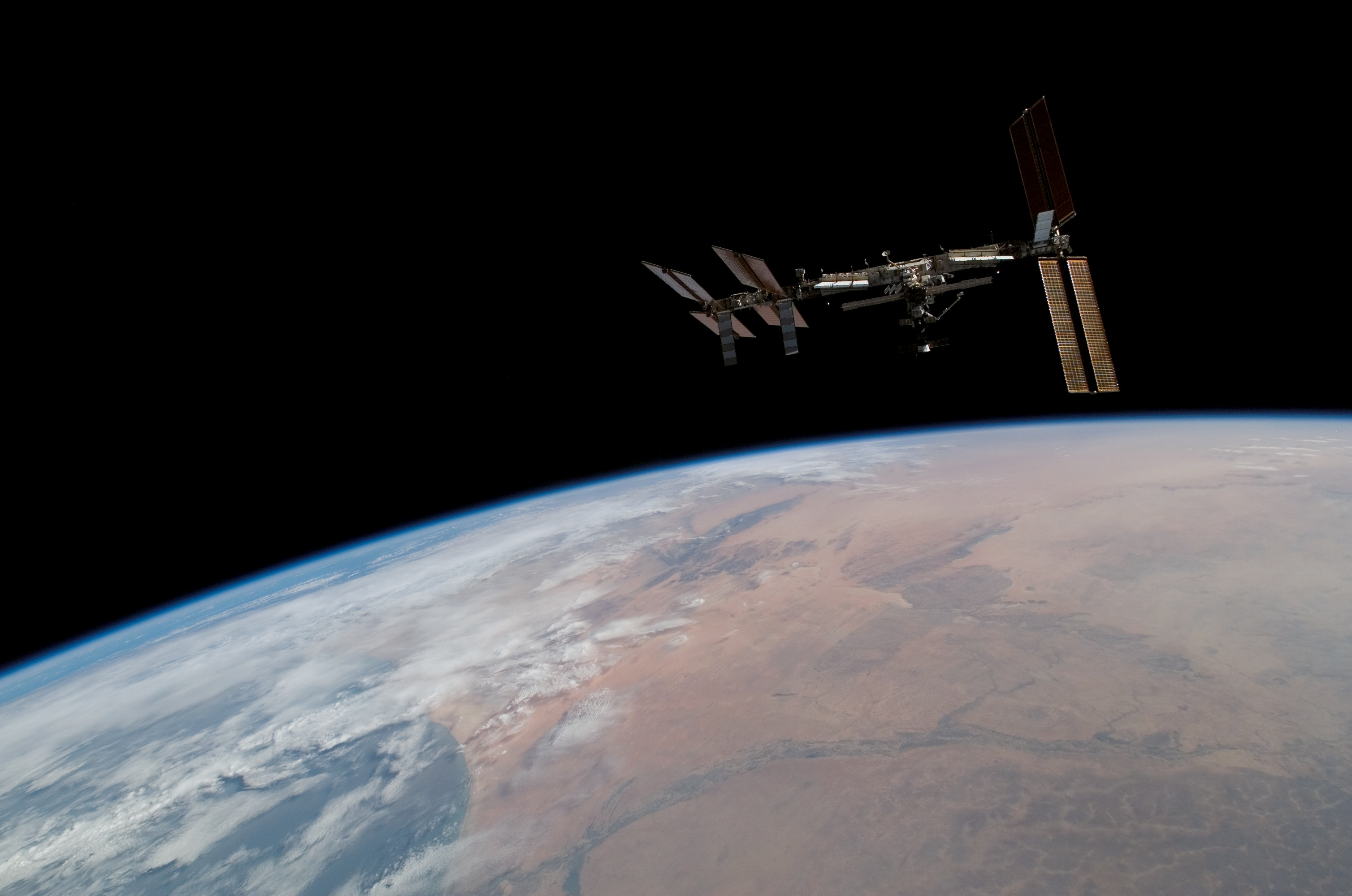 Backdropped by Earth's horizon and the blackness of space, the International Space Station is seen from Space Shuttle Atlantis as the two spacecraft begin their relative separation. Earlier the STS-122 and Expedition 16 crews concluded almost nine days of cooperative work onboard the shuttle and station. Undocking of the two spacecraft occurred at 3:24 a.m. (CST) on Feb. 18, 2008.